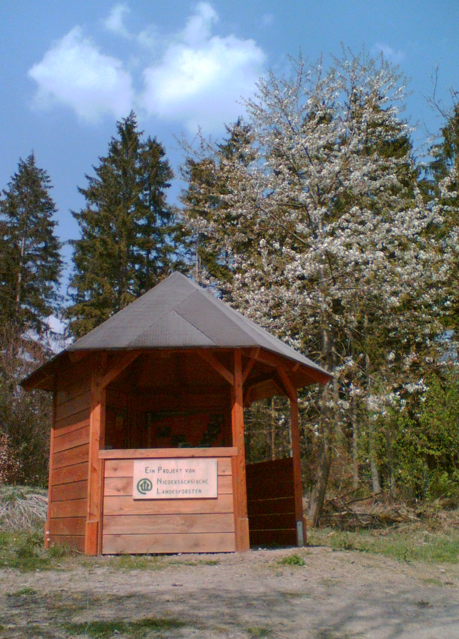 Infopoint Friedrichshäuser Bruch (Solling mountain shelter)